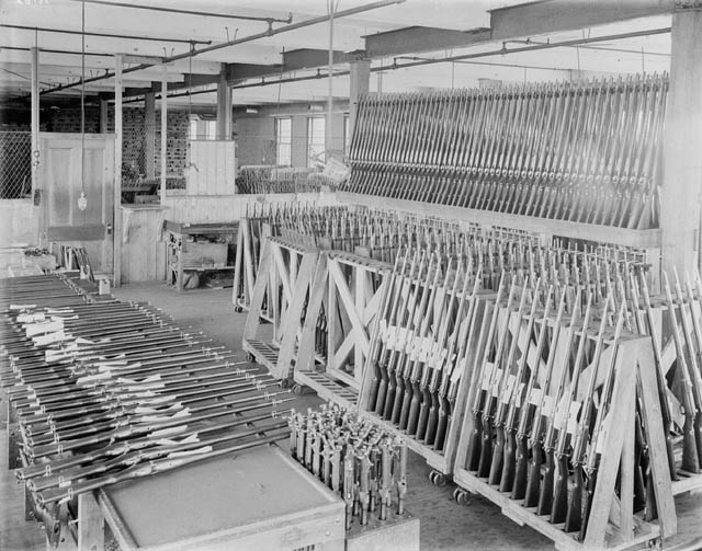 Inside the Ross Rifle Factory, Quebec City, ca. 1904-1905